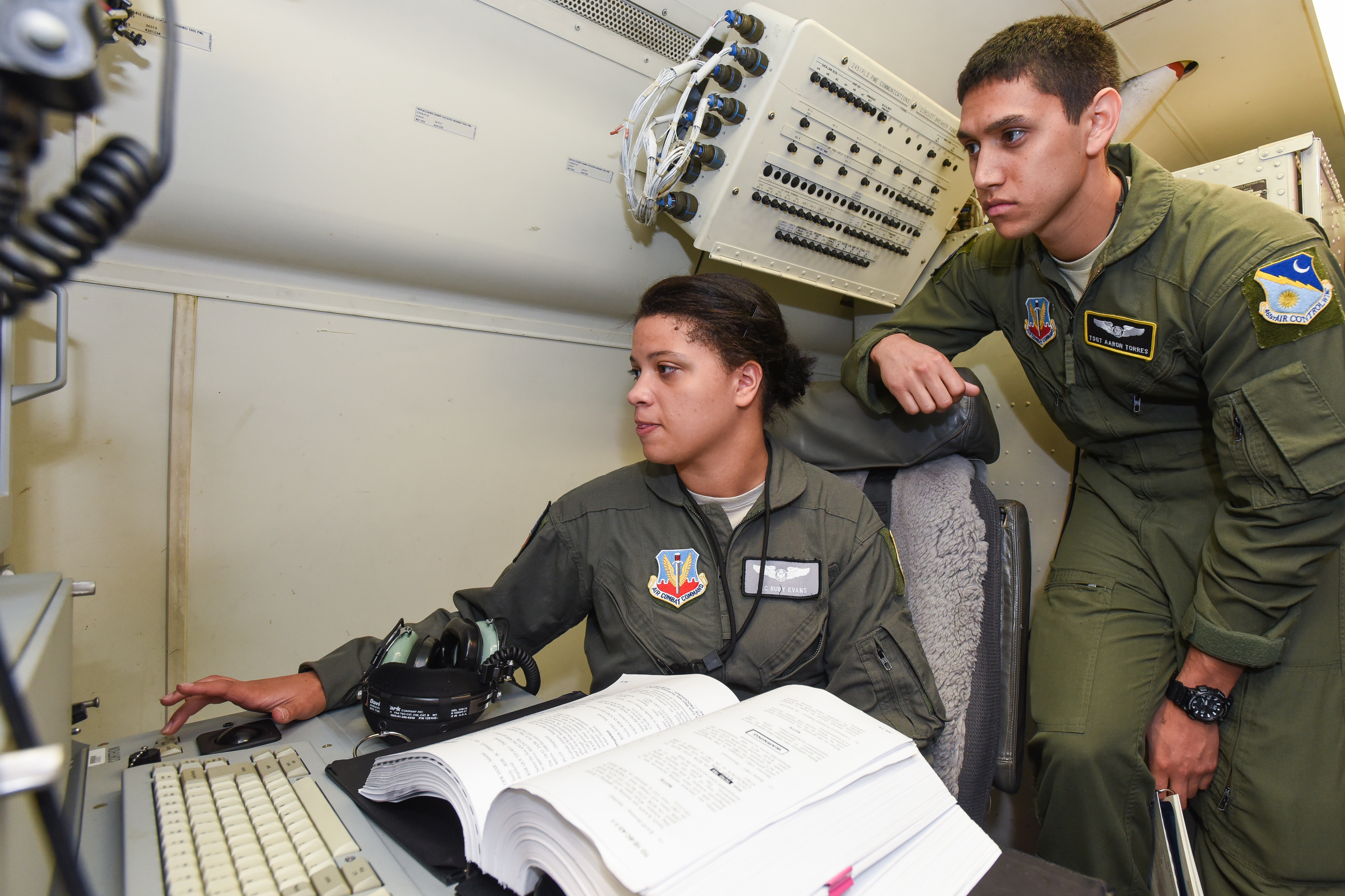 U.S Air Force Tech. Sgt. Aaron Torres, right, an airborne radar technician instructor with the 330th Combat Training Squadron (CTS), evaluates Airman 1st Class Ruby Evans, an airborne radar technician student with the 330th CTS, during pre-flight checks on an E-8C Joint STARS, Robins Air Force Base, Ga., May 4, 2016. The Airmen are part of Team JSTARS consisting of the U.S. Air Force active duty 461st Air Control Wing, Georgia Air National Guard 116th Air Control Wing and Army JSTARS. Collectively they fly the E-8C Joint STARS providing joint airborne command and control, intelligence, surveillance, reconnaissance and battle management over land and water to combat commanders around the globe. (U.S. Air National Guard photo by Senior Master Sgt. Roger Parsons) Unit: 116th Air Control Wing